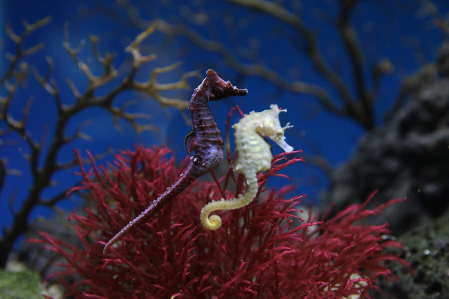 Korean seahorse (Hippocampus haema), male (left) & female (right)